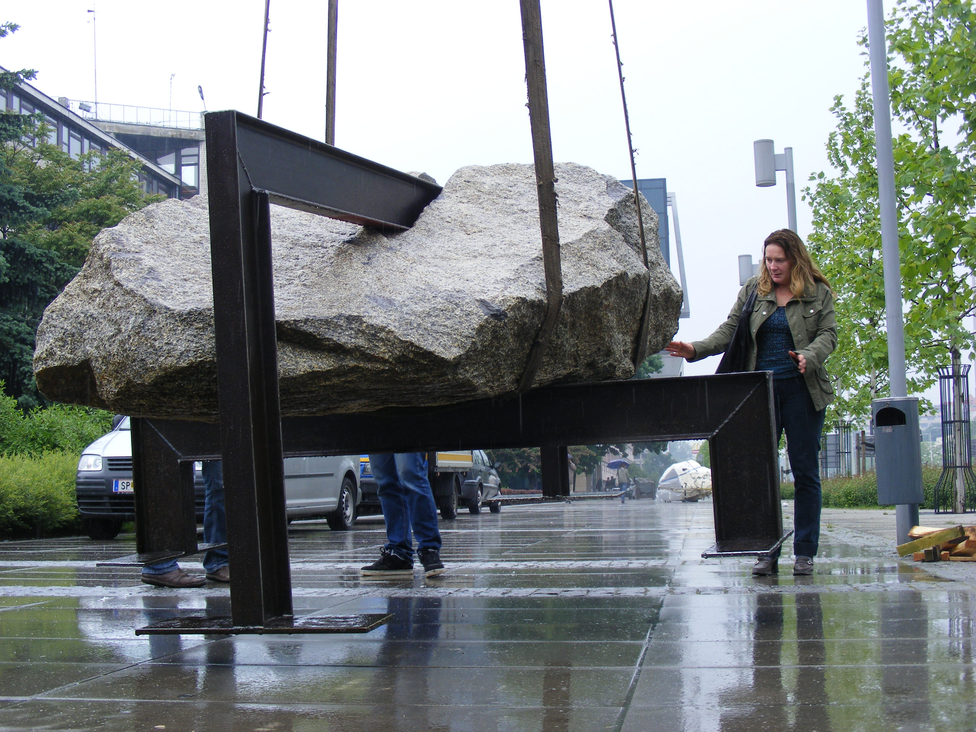 Mounting installation "Pomiędzy", Grażyna Jaskierska at the right side. Plac Grunwaldzki, Wroclaw, Poland.